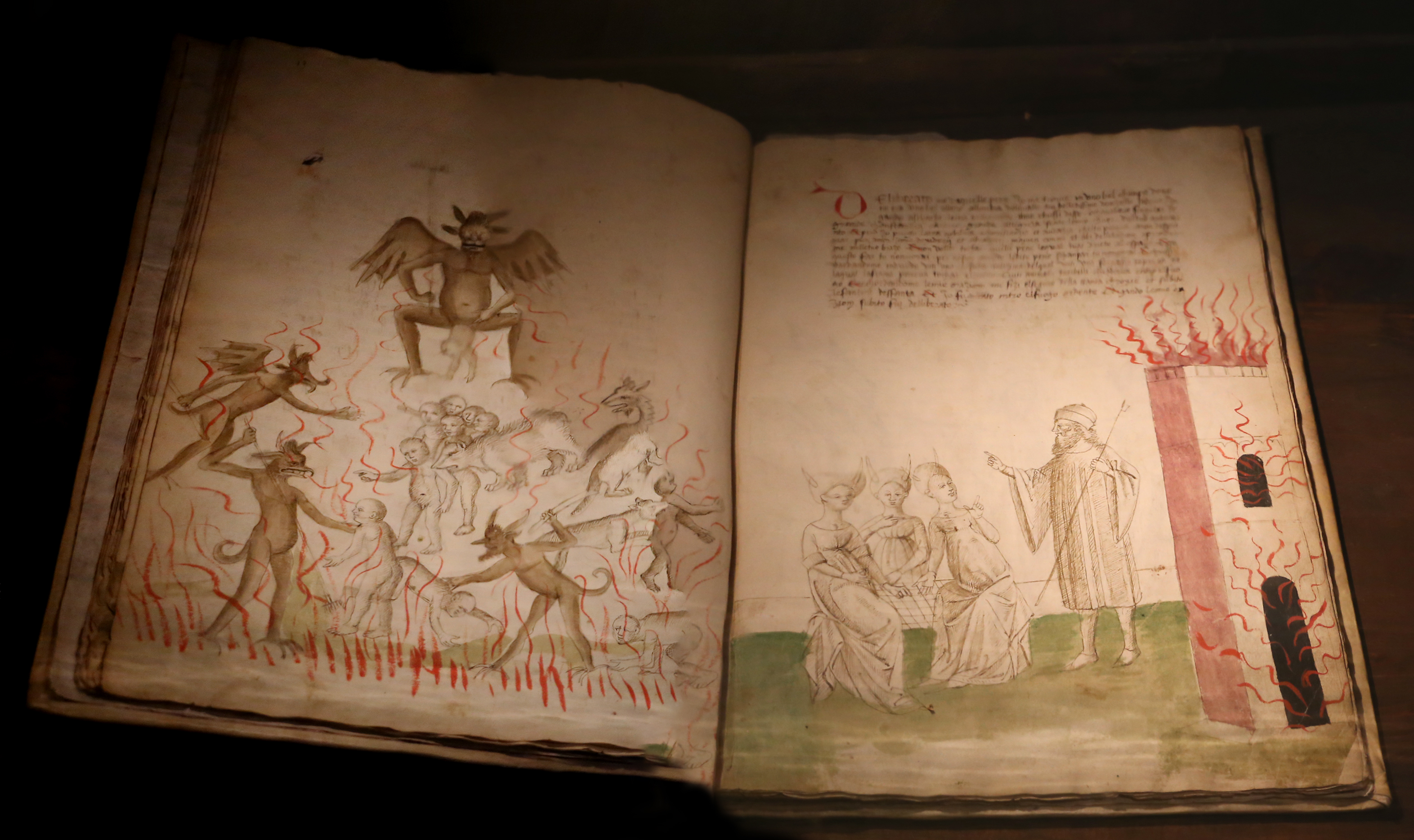 Intuition (Palazzo Fortuny 2017 exhibition)